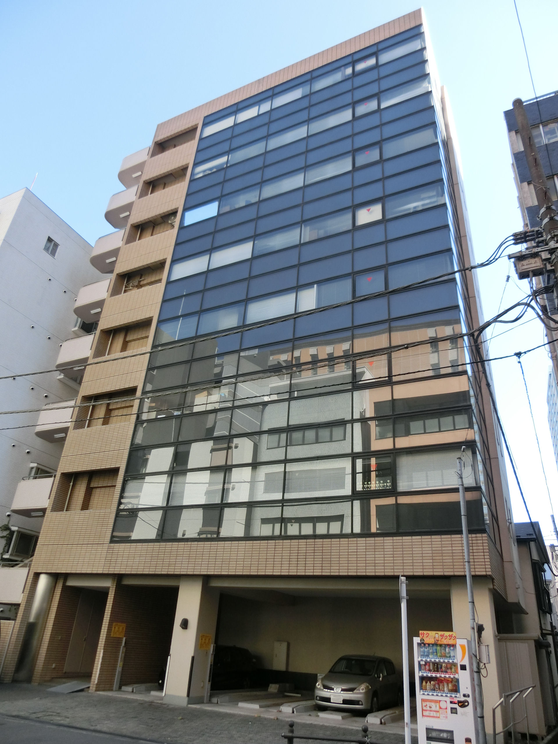 Geibunsha Head Office